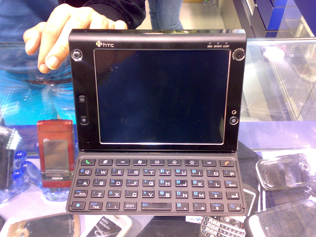 HTC Athena